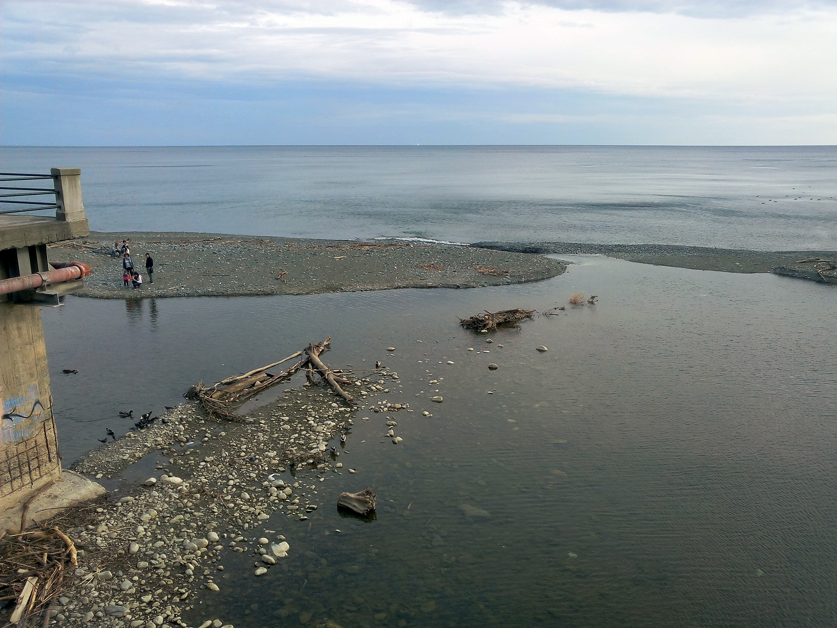 Torrente Cerusa: mouth (Genova Voltri, Italy)